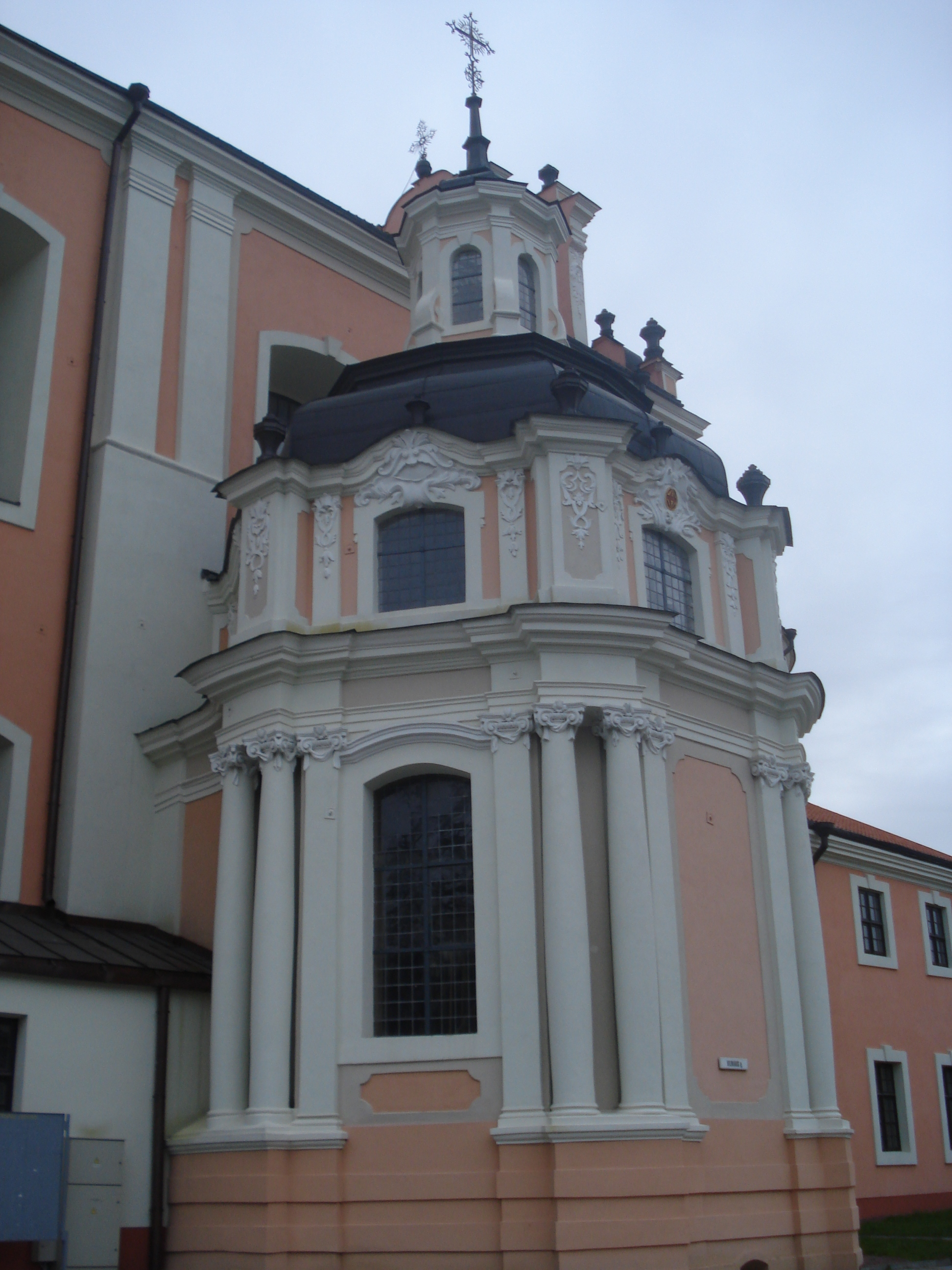 Chapel of the Providence of God